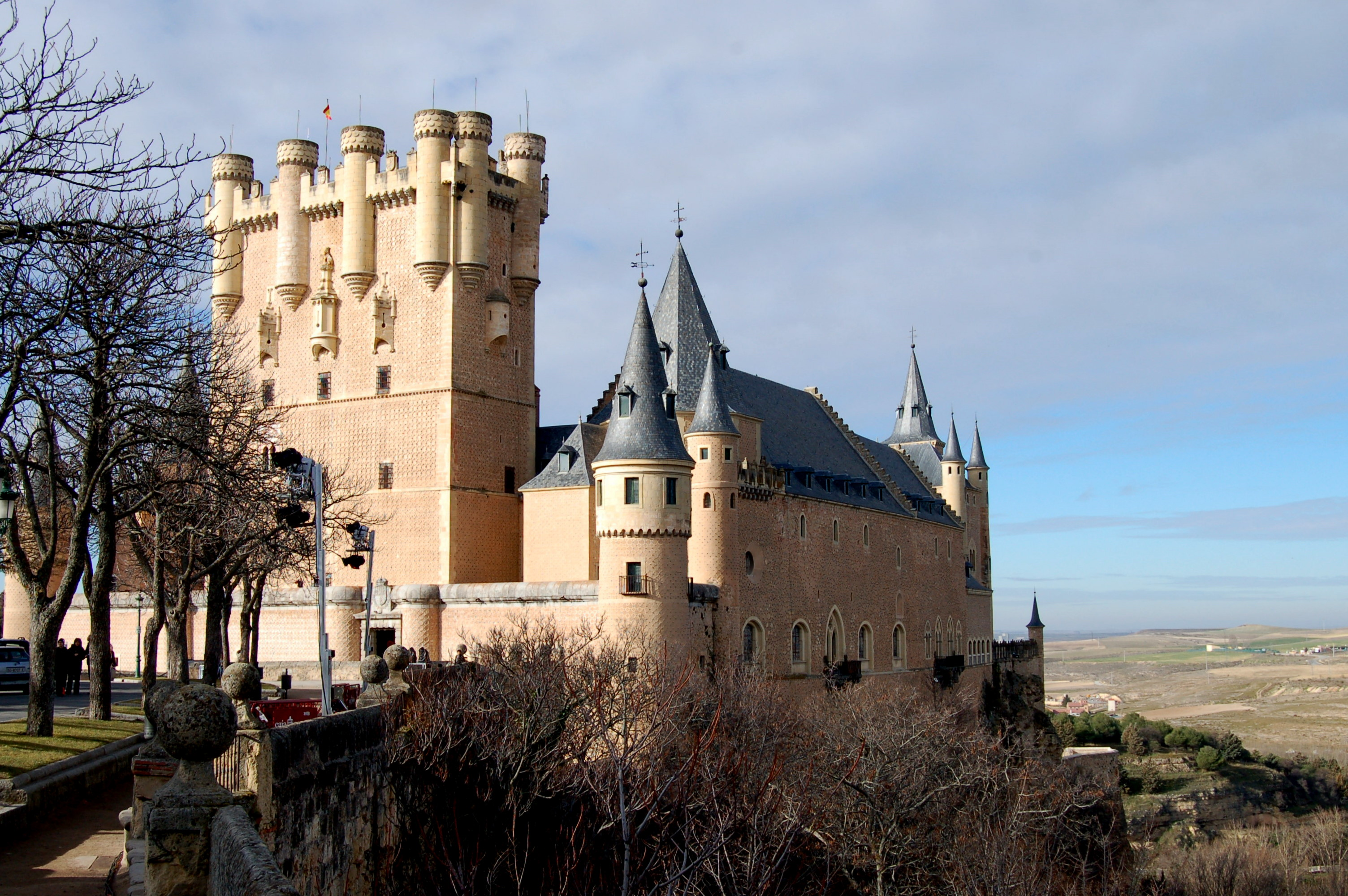 Personal photograph taken January 4th, 2007.